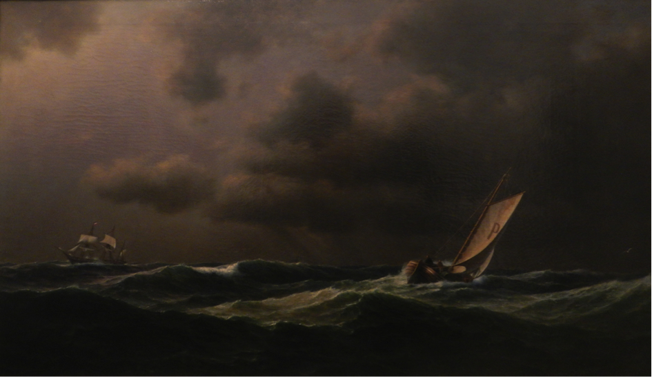 Oil Painting on canvas by a German marine and landscape painter and illustrator from Hamburg